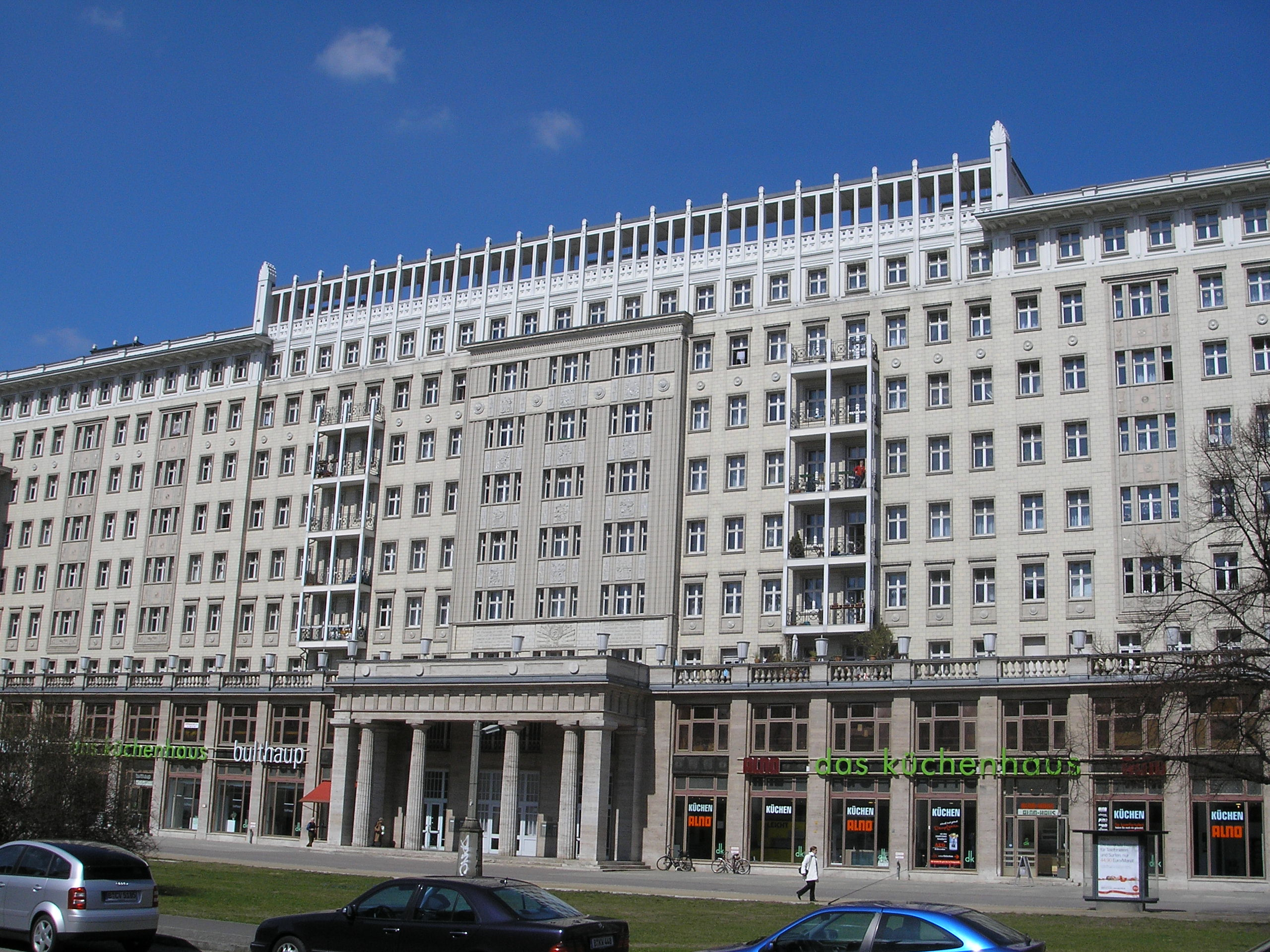 View on Block C North on Karl-Marx-Allee in Berlin. Architect Prof. Richard Paulick. Constructed in 1952.